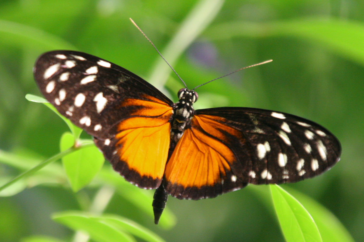 Heliconius hecale - Tiger Longwing, (Central & South America), Monsanto Insectarium, St. Louis Zoo